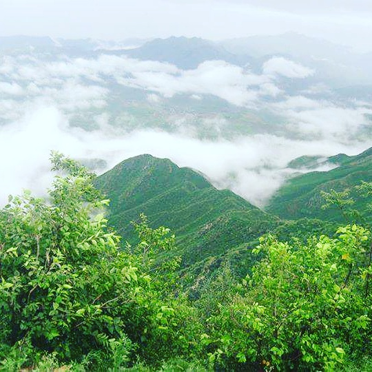 Cherat,beautiful hill station in KPK in August